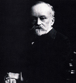 Reproduction of photograph of Seeley